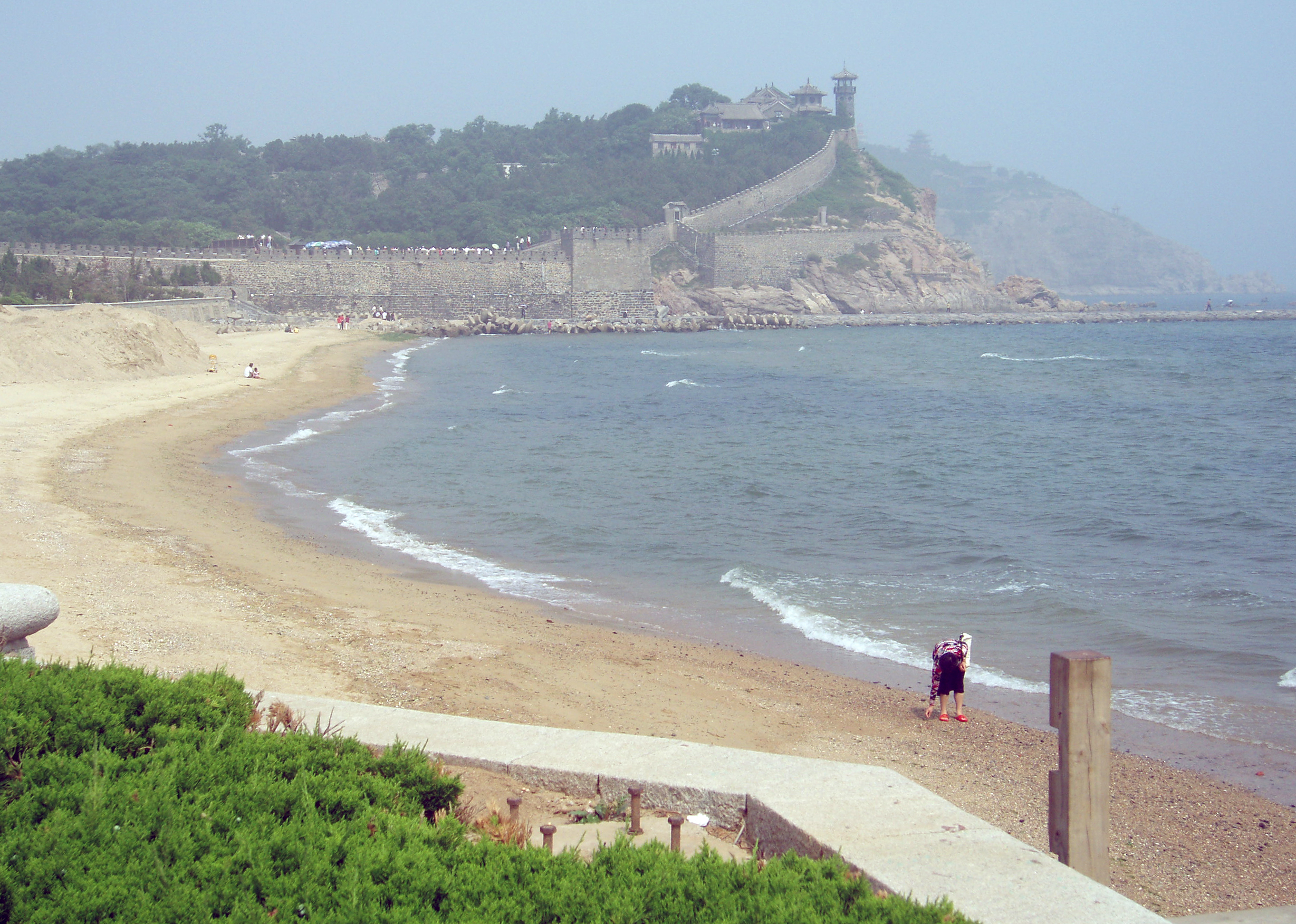 Penglai Pavilion, a fabled abode of immortals of China, in Shandong